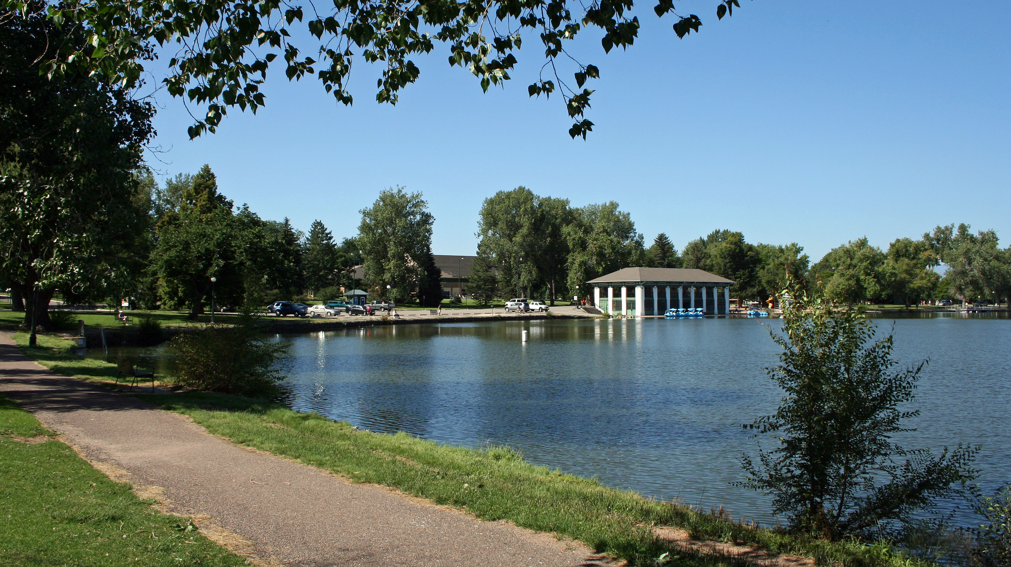 A view of Washington Park in Denver, Colorado, including Smith's lake and the 1913 Boat House. The park and the surrounding neighborhood, also called Washington Park, are listed on the National Register of Historical Places.